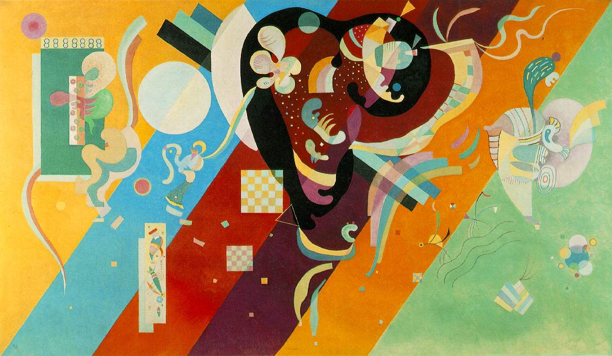 Composition 9